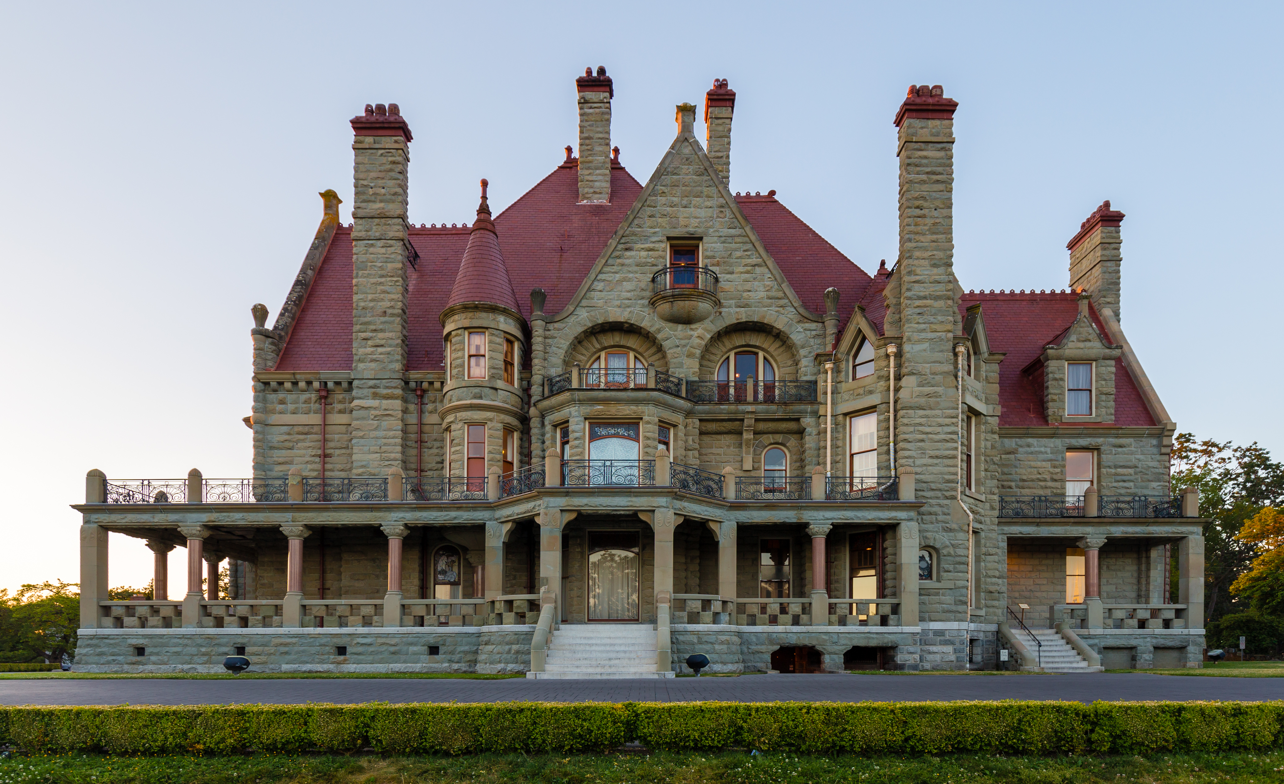 Craigdarroch Castle just after sunset - view from the south, Victoria, Canada